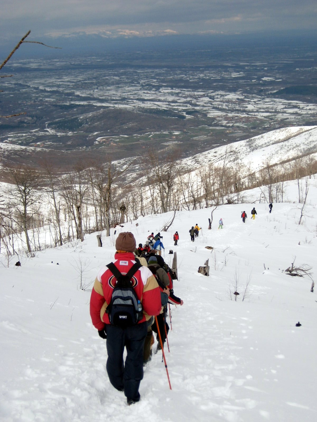 Photos from Arianit Dobroshi for Wikimedia Commons. Original Filename "arianit/Maja e Qobanit Hike/image130.jpg"